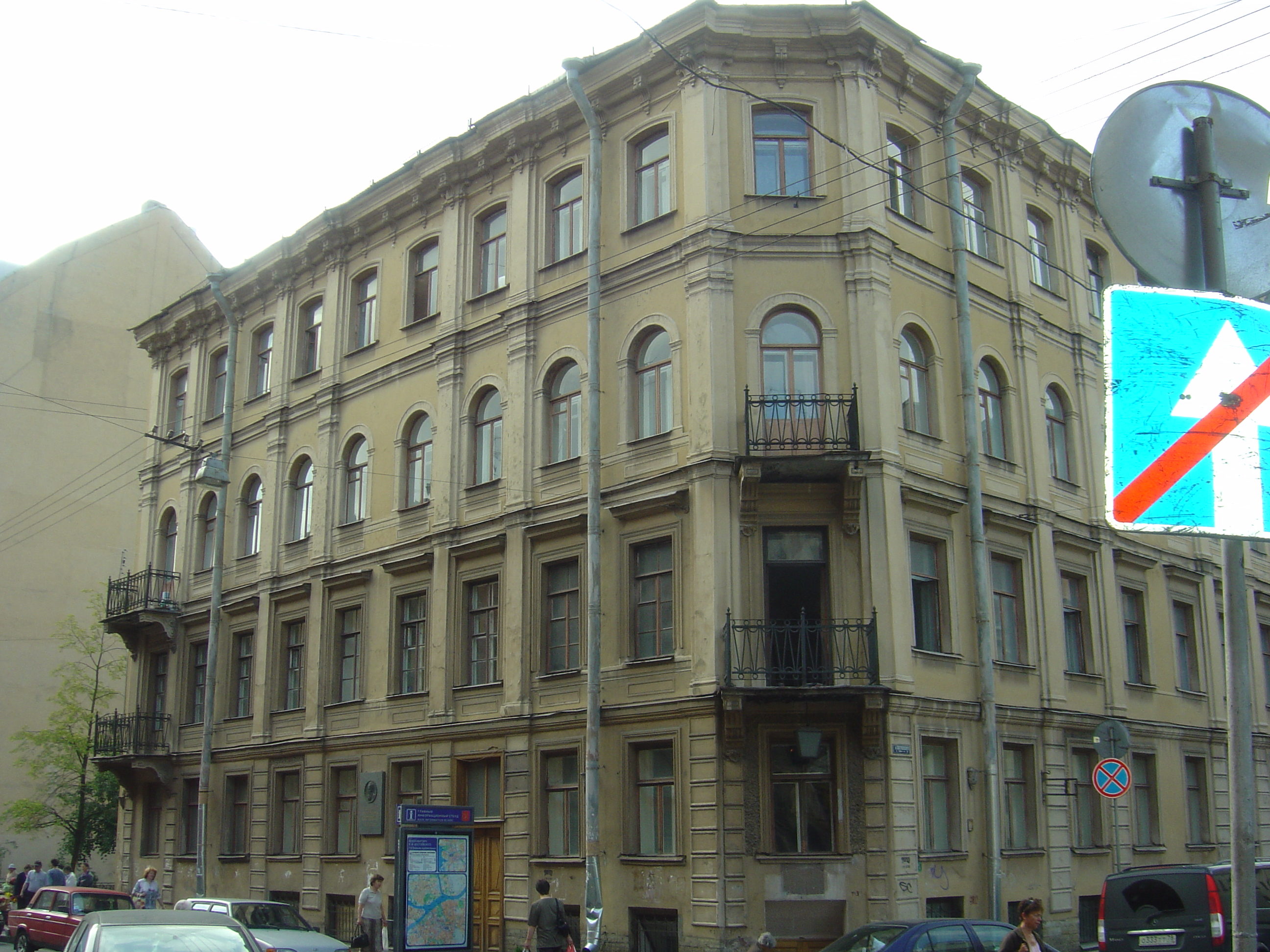 Former residential house of Dostoevsky at Saint-Petersburg. Today it comprises the Dostoevsky museum.